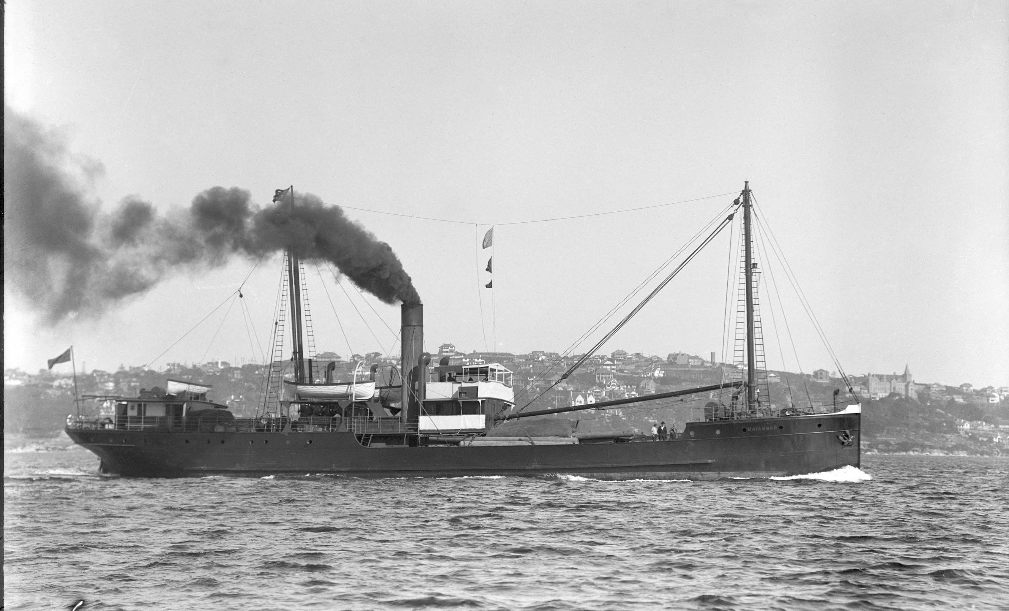 Coastal steamship Maiambar, built by Ardrossan Dry Dock & Ship Building Co in Ayrshire, Scotland in 1910 for the North Coast Steam Navigation Co of Sydney, New South Wales. In 1920 she was lengthened from 155.6 ft to 175.6 ft. In 1940 while under tow she broke her tow line and ran aground off Newcastle, New South Wales. She could not be refloated and was scrapped in situ.The ANMM undertakes research and accepts public comments that enhance the information we hold about images in our collection. This record has been updated accordingly.Object no. 00017501ANMM Collection Gift from the Estate of Peter Britz